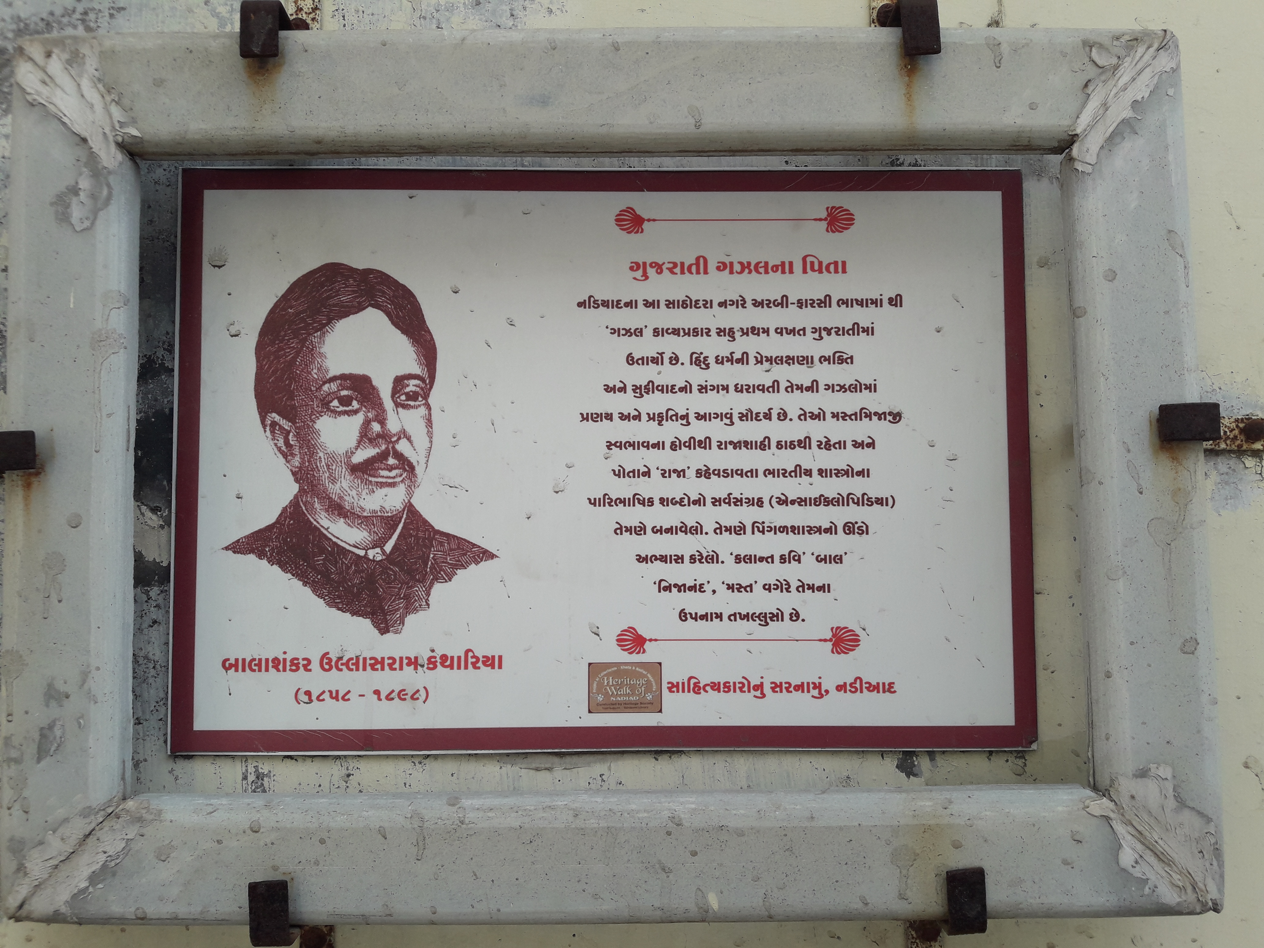 Plaque at the birth place of Balashankar Kantharia, a Gujarati poet